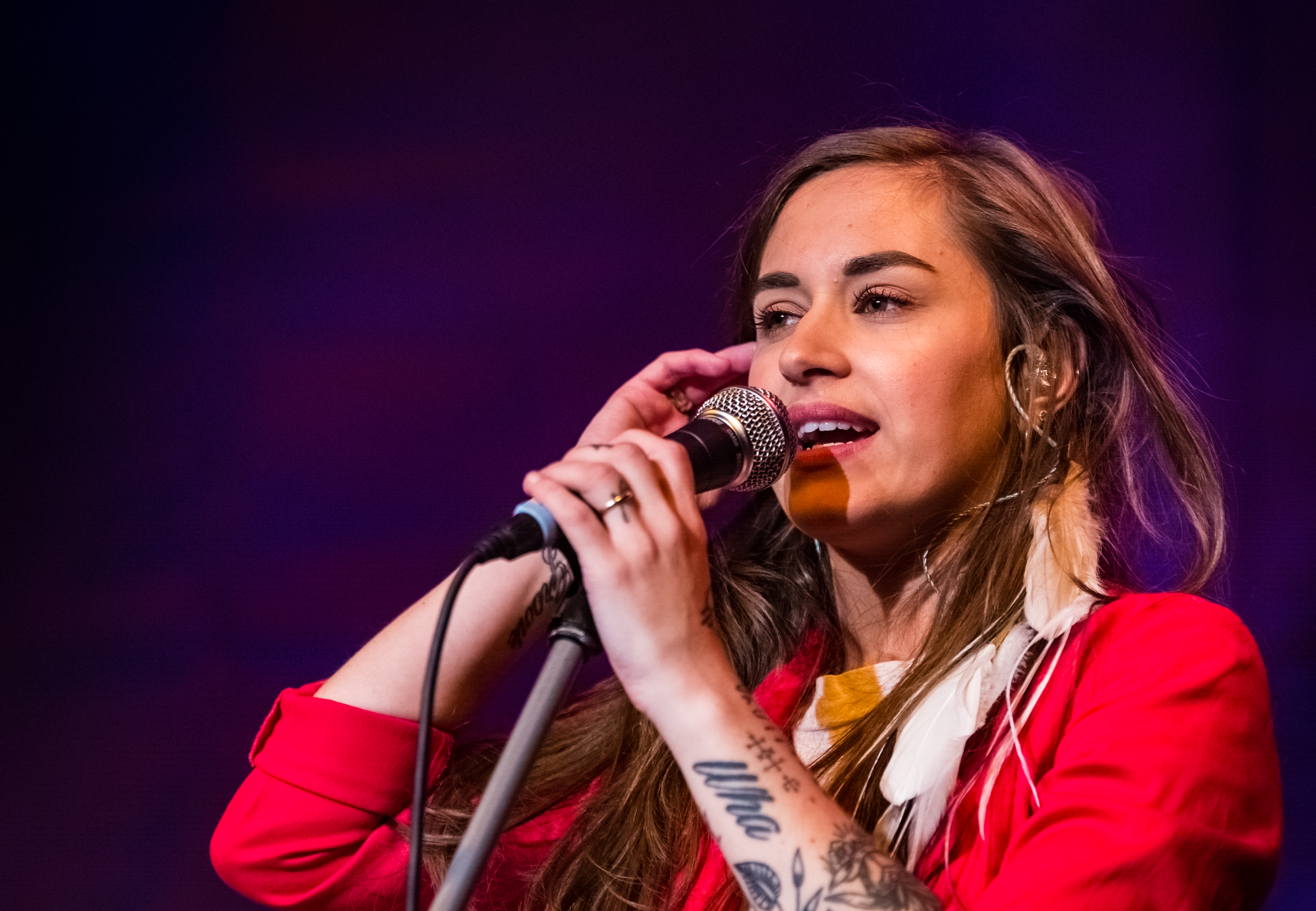 Nina Attal - Leverkusener Jazztage 2017